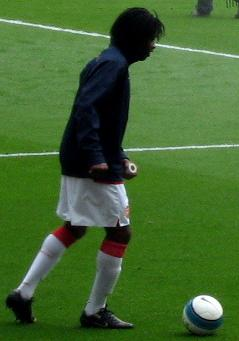 Cameroonian football (soccer) player Alexandre Song